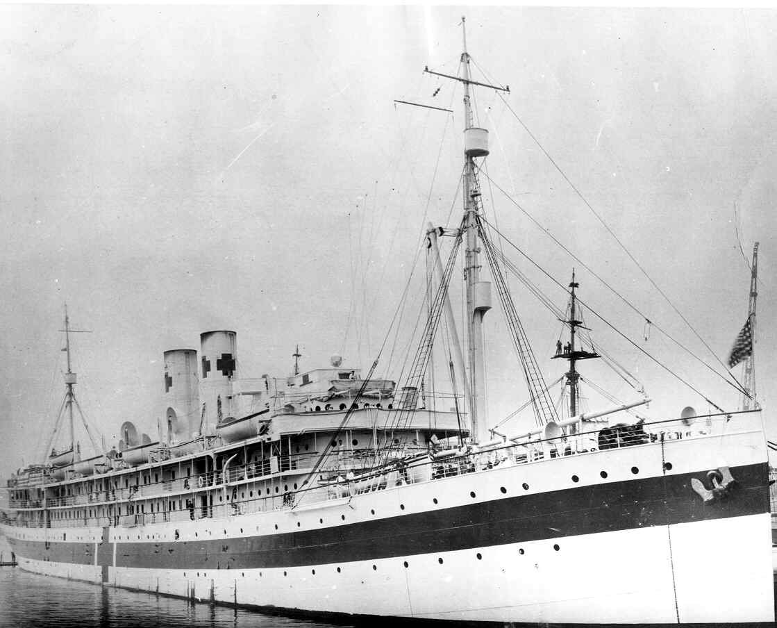 American hospital ship USS Mercy (AH-4)